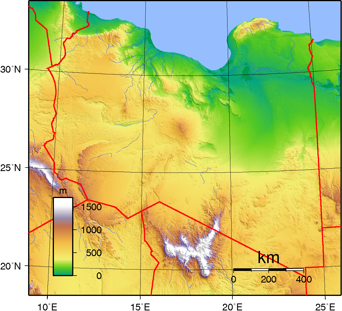 Topographic map of Libya. Created with GMT from public domain GLOBE data